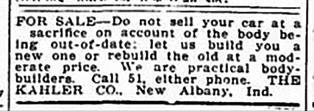 Classified advertisement for The Kahler Co., New Albany, Indiana, published February 11, 1912